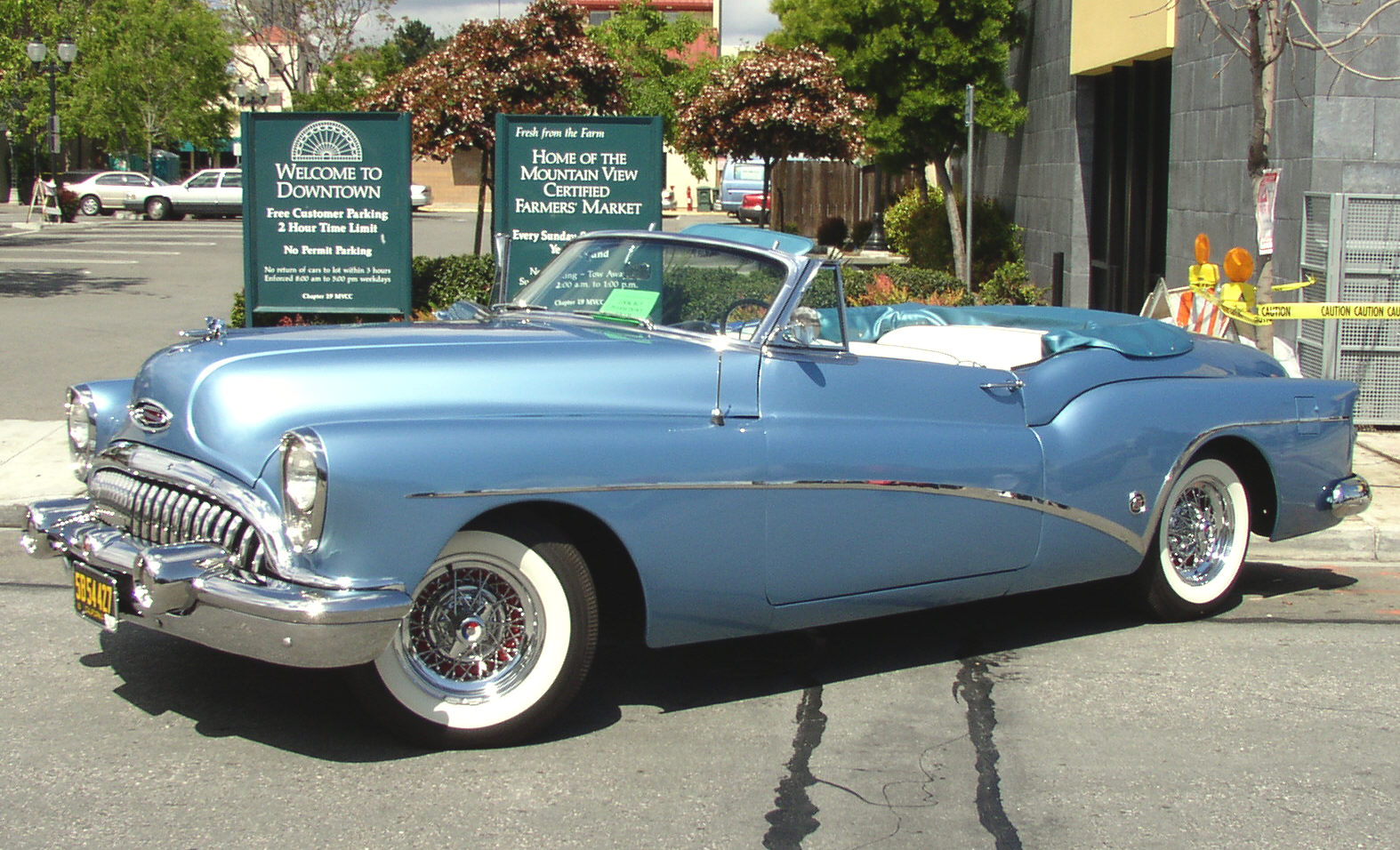 1953 Buick Roadmaster Skylark Series 70 Model 76X 2-door Convertible Coupe. PD, public domain. Photo by John D. Love, 4/26/03, Mountain View, California